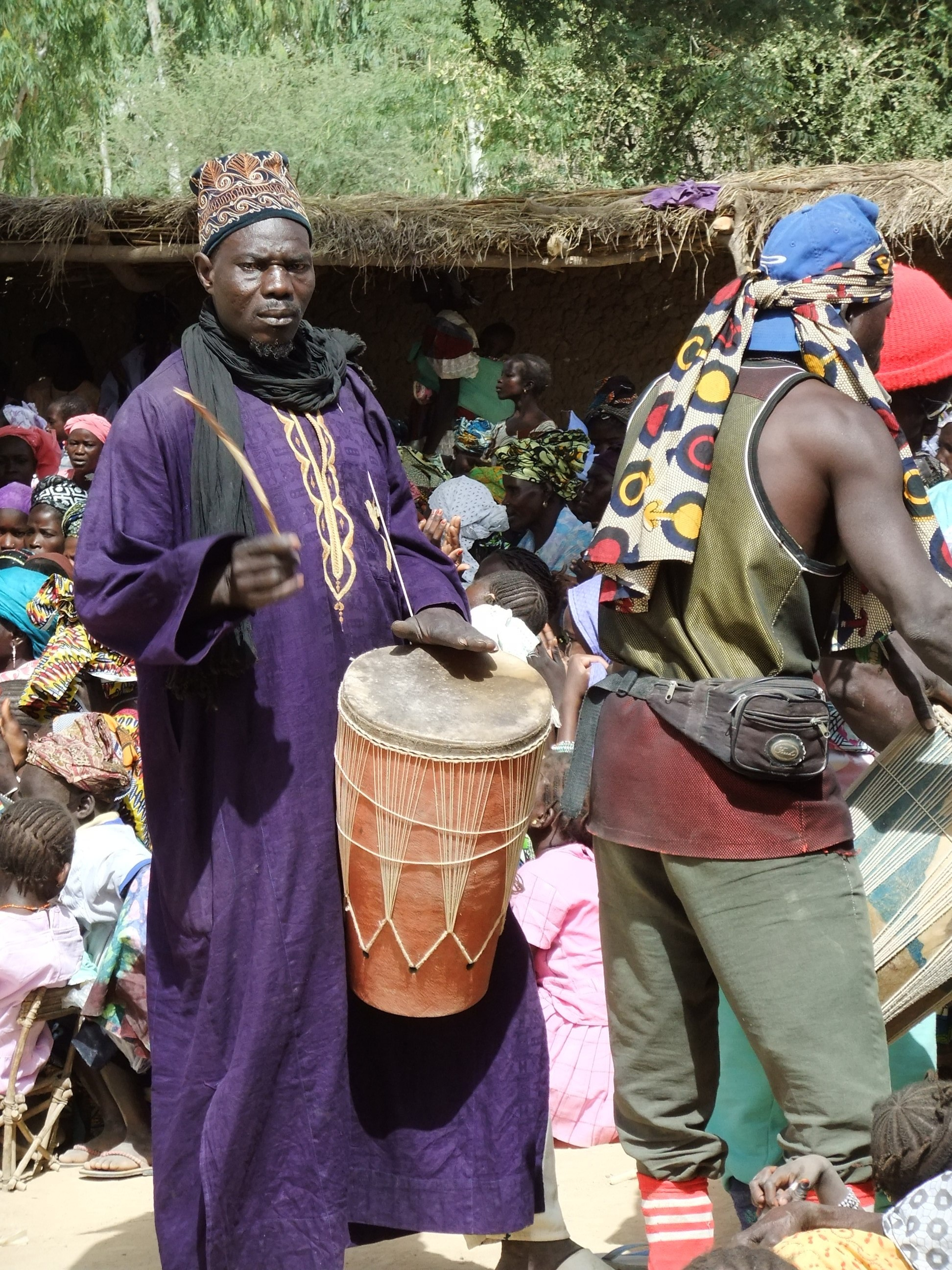 Diabolo village, Mali This is an image of "African people at work" from Mali